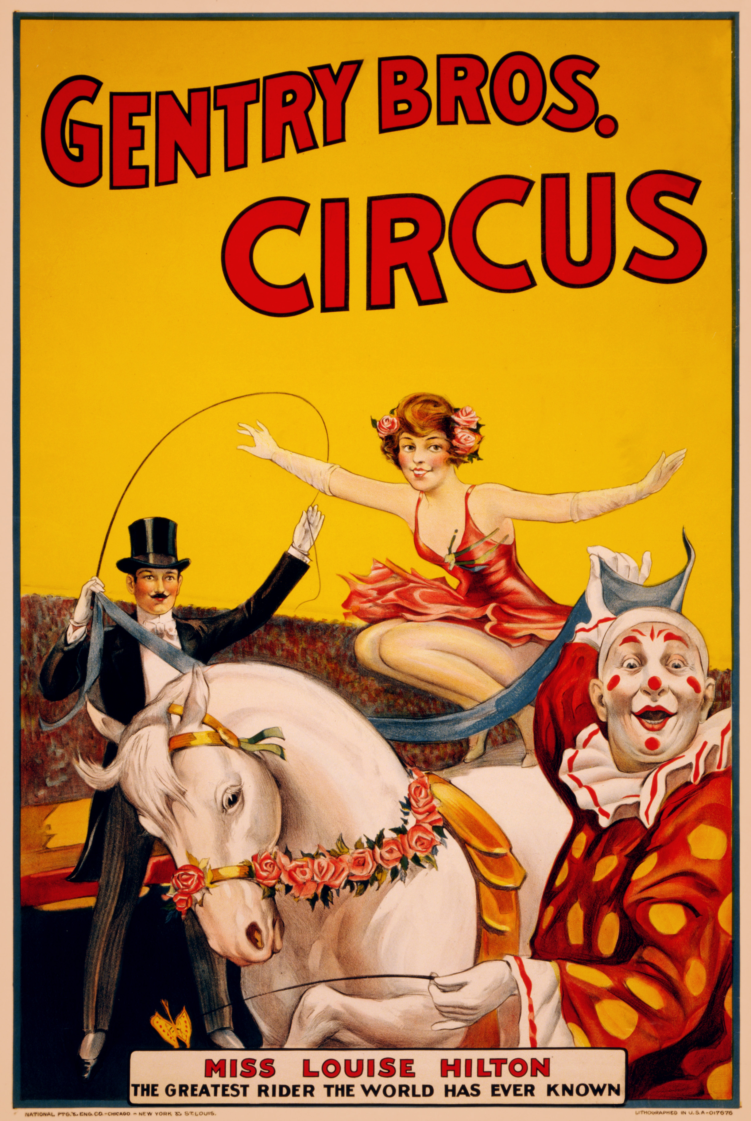 Circus poster showing Louise Hilton perched on a white horse, about to leap over a scarf held by a clown and a ringmaster. Text: "Gentry Bros. Circus. Miss Louise Hilton, the greatest rider the world has ever known." 1 print (poster) : chromolithograph ; 105 x 72 cm. Gentry Brothers was a circus (formerly a dog & pony show) owned by Henry, Frank, Walter and J.W. Gentry based out of Bloomington, Indiana. It existed in various guises between 1887 and 1922.